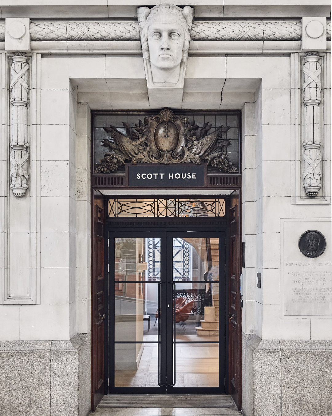 The entrance to Scott House, Waterloo Station